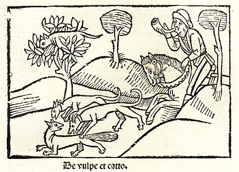 Steinhowel's illustration of the fable, "The Fox and the Cat"